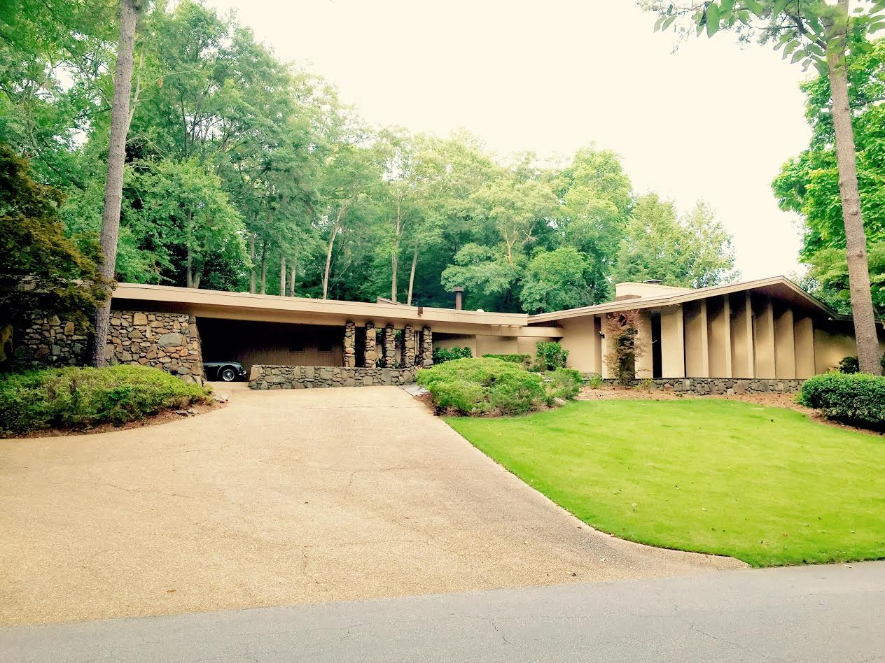 Large Single family mid-century modern home in Pine Hills